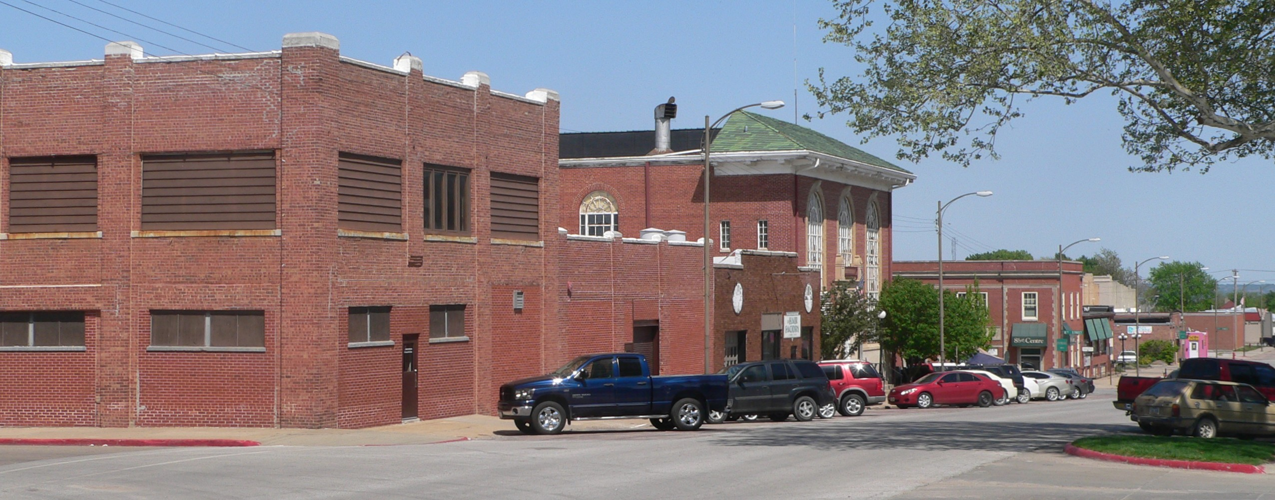 North side of 1st Corso, looking northeast from 9th Street, in Nebraska City, Nebraska. The two-story green-roofed building with arched windows at center is the Memorial Building.